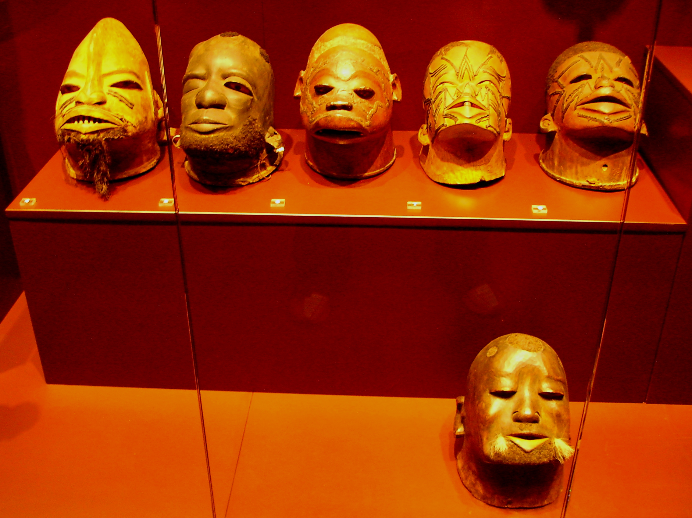 The most famous pieces exposed at the Ethnographic Museum in Warsaw. From left: Ujamaa pole figure, Tanzania, Makonde Ujamaa pole figure, Tanzania, Makonde Shetani carving, Tanzania, Makonde Mapiko Helmet Mask, a Chinese Man Caricature, Mozambico, Makonde Mapiko Helmet Mask, an Arab Man Caricature, Mozambico, Makonde Mapiko Helmet Mask, Mozambico, Makonde